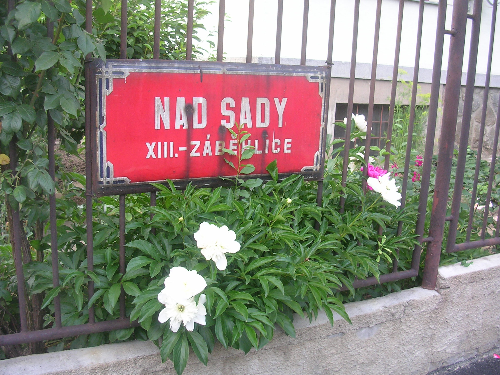 Záběhlice, Prague, the Czech Republic. Street sign in Spořilov.